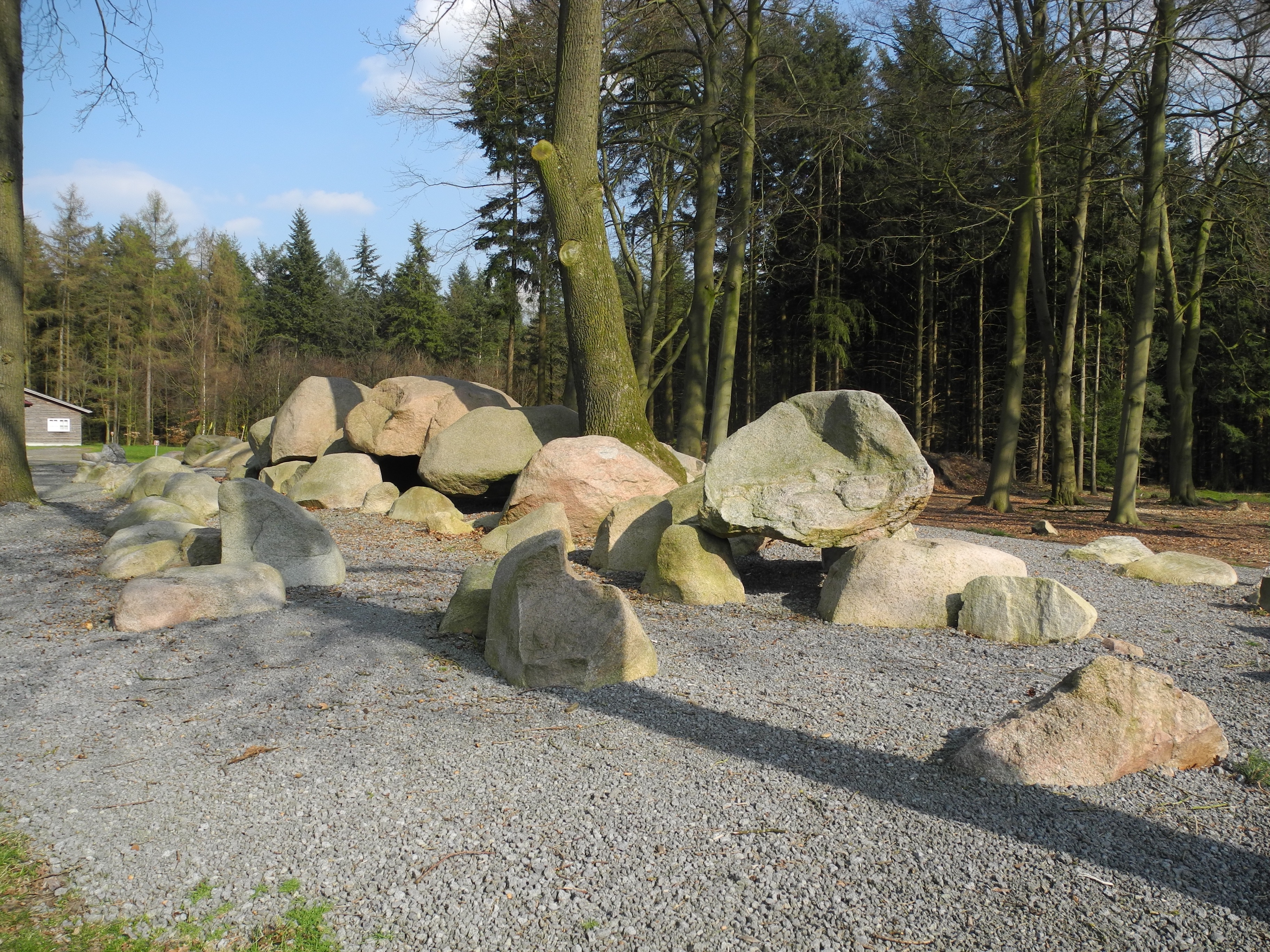 Megalithic tomb "Grumfeld West" (Westerholte, district Osnabrück, Lower Saxony, Germany).